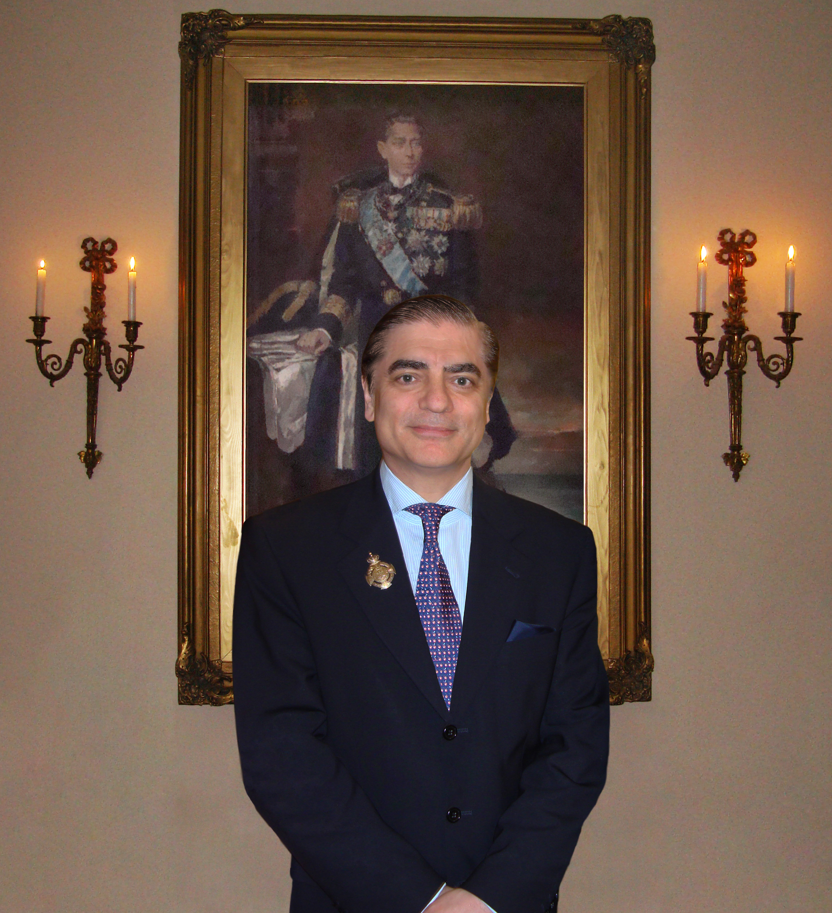 His Royal Highness Prince Paul of Romania License on Flickr (2012-02-03): CC-BY-SA-2.0